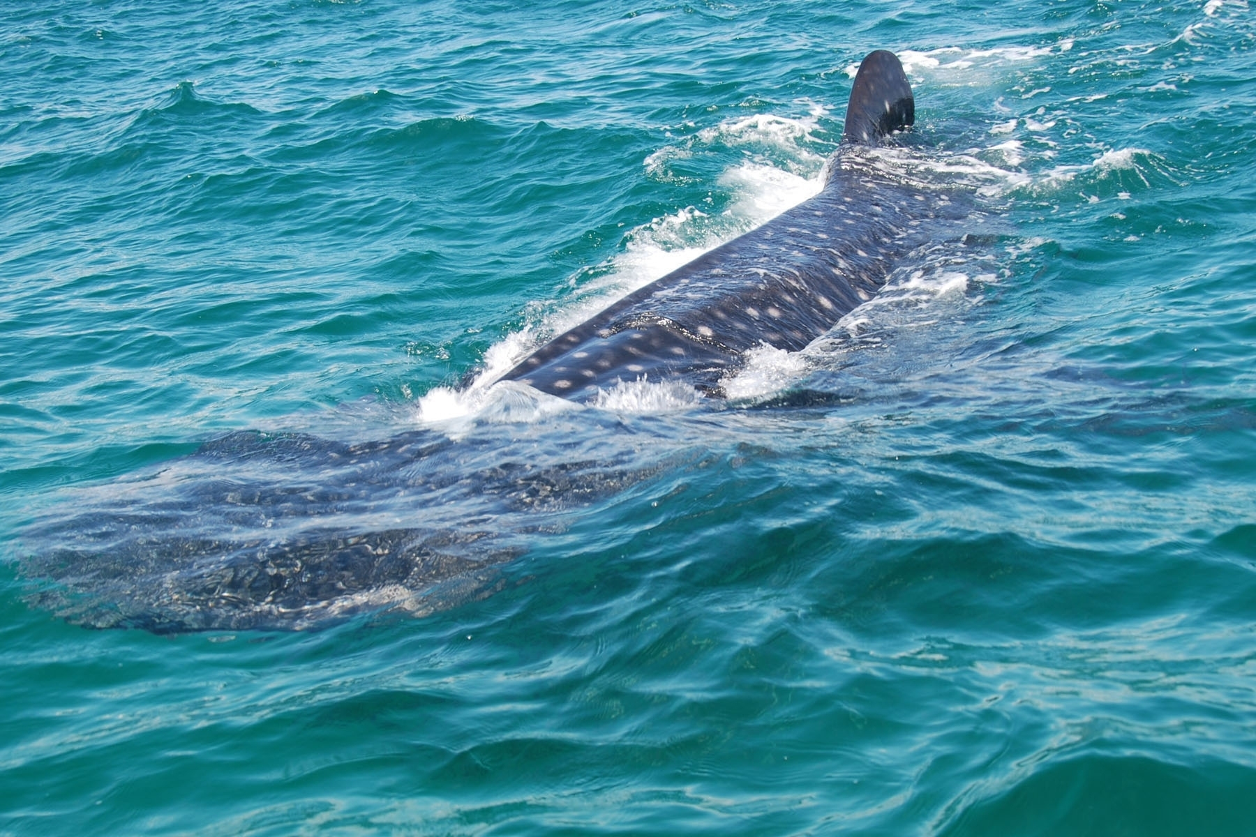 A Whale Shark Rhincodon typus on the surface in the western Caribbean. Image ID: fish9262, NOAA's Fisheries Collection